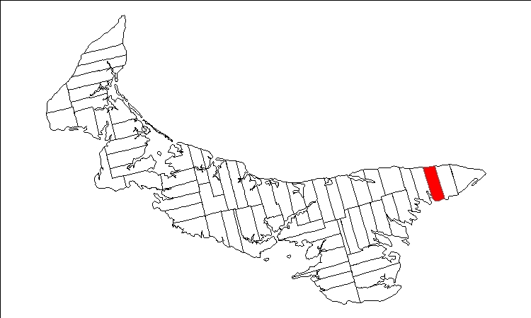 Public domain map of Prince Edward Island created by User:Plasma east with data courtesy of Geogratis, modified to show townships. Released under GFDL (self).